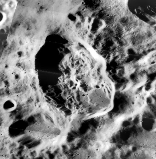 Lunar Orbiter (from MAP)